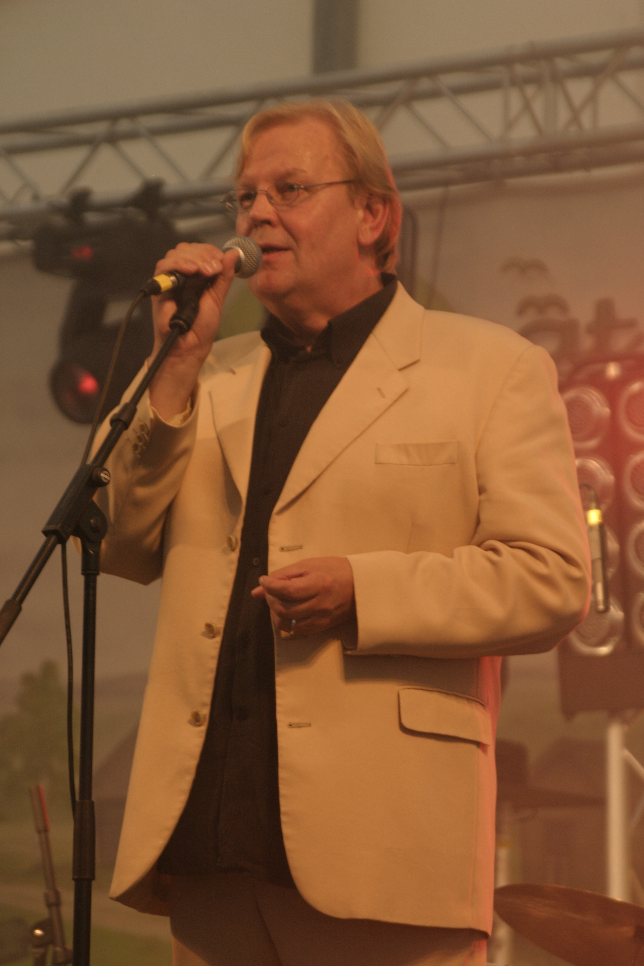 Pasi Kaunisto in Vihreät Niityt music festival in the summer 2007.